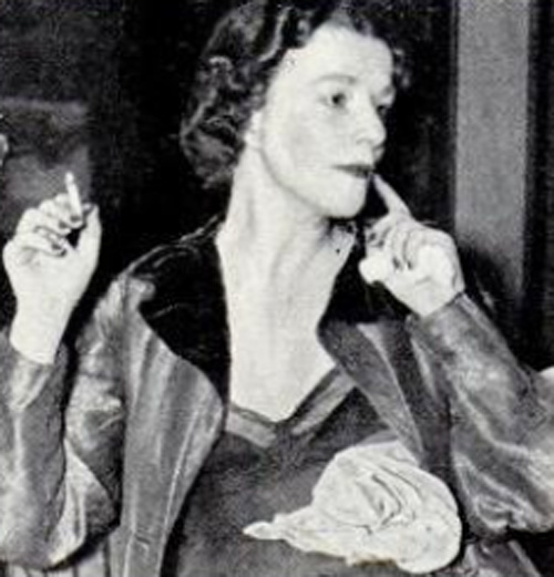 Mary Raffray, maiden name Mary Kirk, in 1937. She married Ernest Simpson, former husband of Wallis Simpson in 1937.